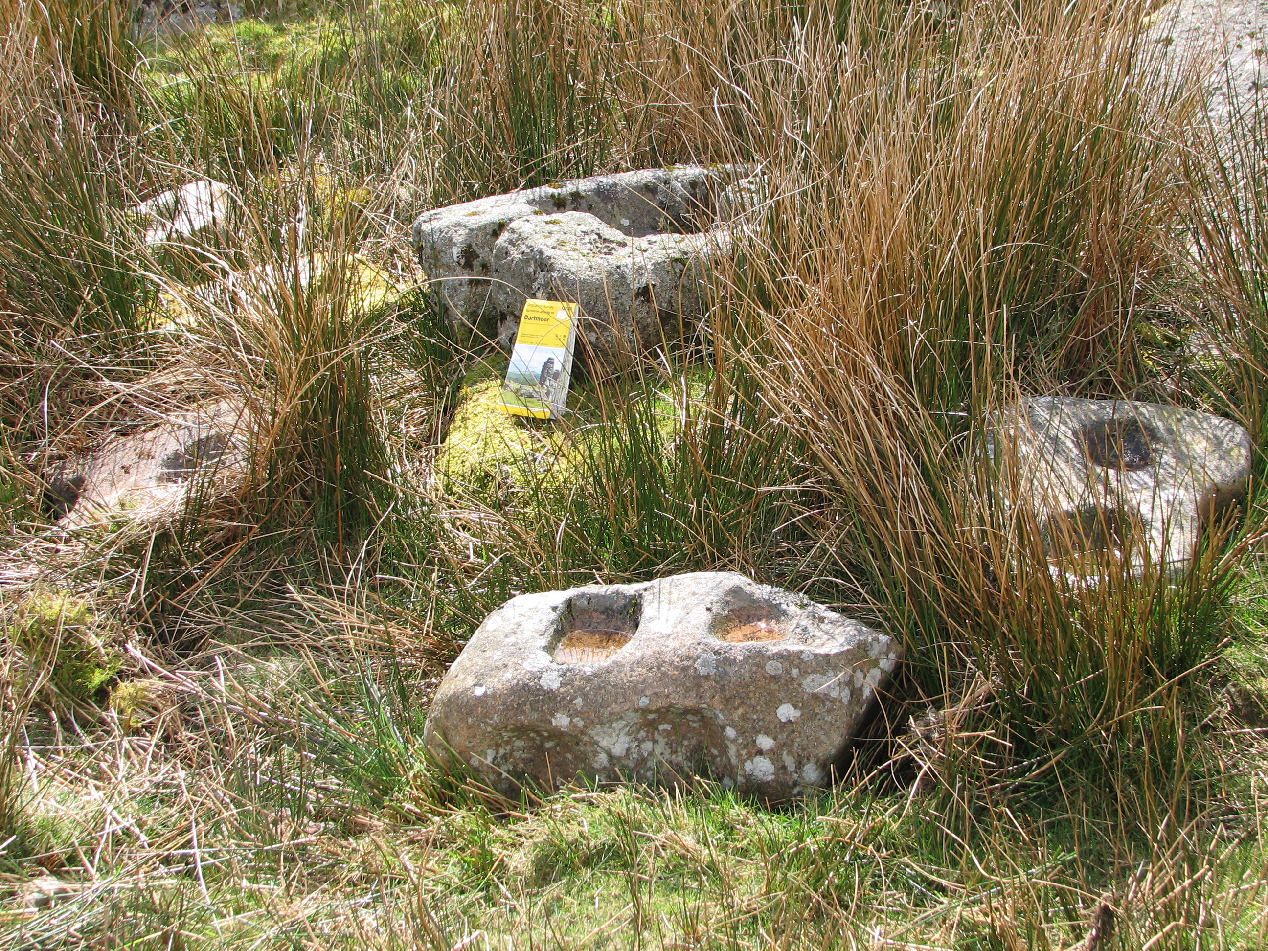 Discarded mortarstones and (at top) a broken mouldstone at the upper blowing house in the Walkham Valley, Dartmoor. Map included for scale.